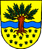 Widnau of Bad Ragaz, Canton of St. GallenEsperanto: Blazono de Widnau, Kantono de Sankt-Galo